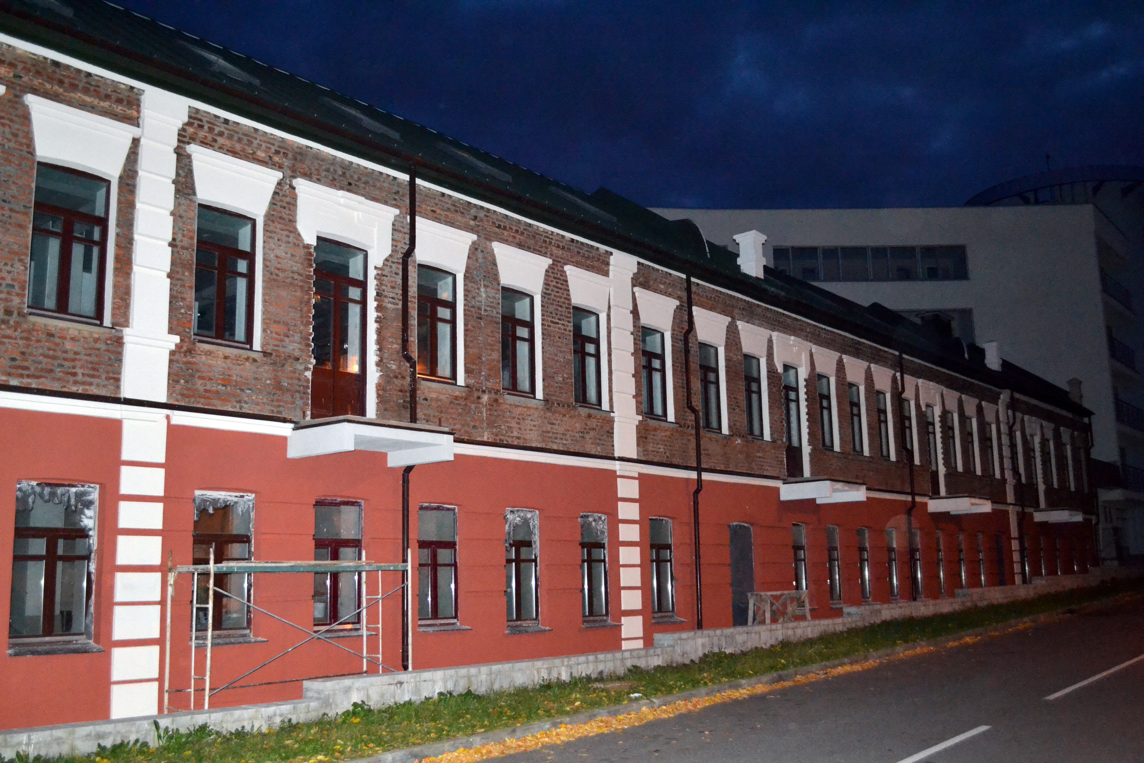 Беларуская (тарашкевіца): м. Менск, вул. Калектарная, 3 This is a photo of Belarusian heritage monument. Reference number: 713Г000047 ( WLM)